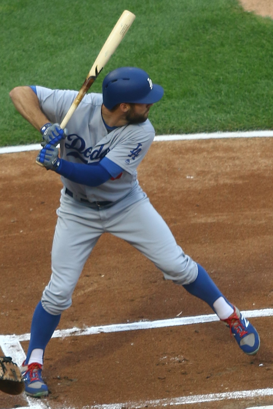 Chris Taylor for the 2017 Los Angeles Dodgers